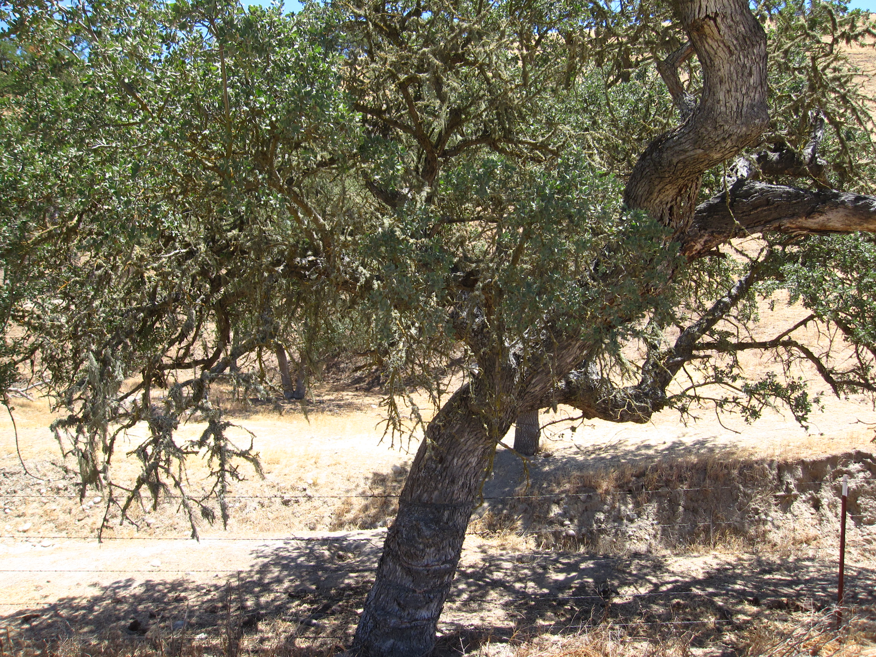 Coast Live Oak (Quercus agrifolia) — off Highway 101 in California.